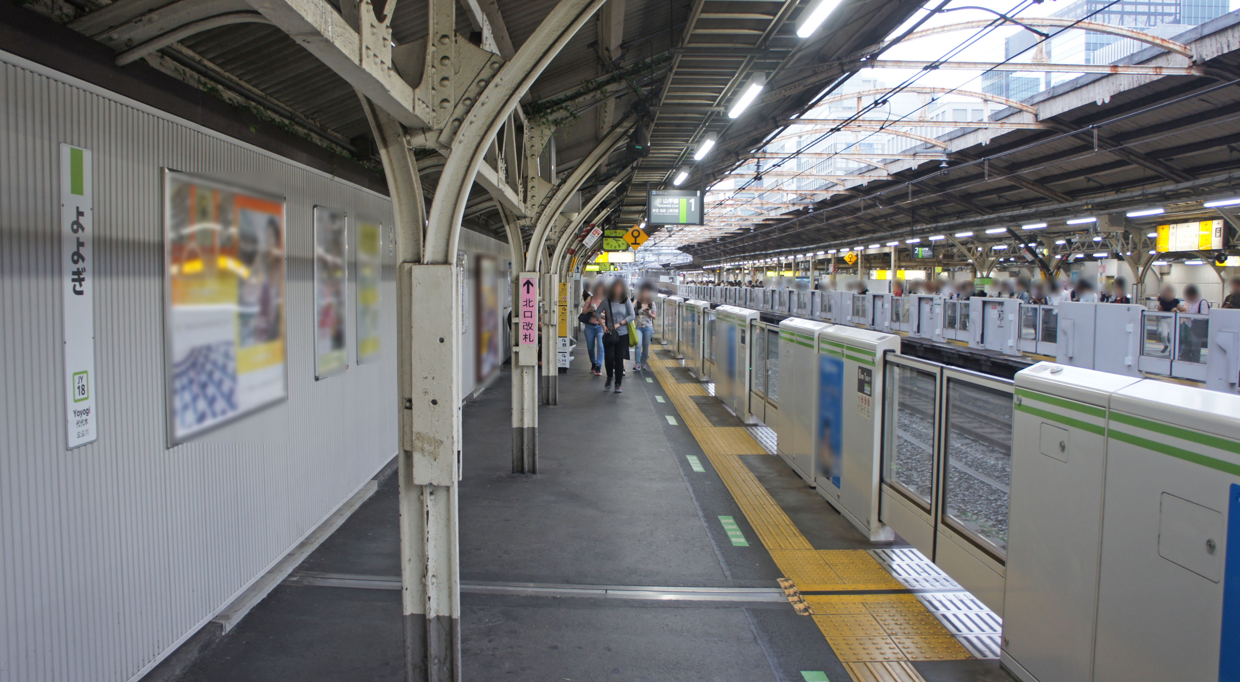 Platform 1 (Yamanote-Line) of JR Chuo-Main-Line/Yamanote-Line Yoyogi Station